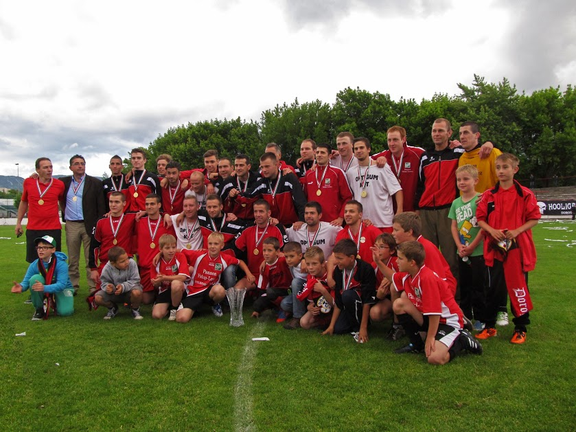 FC Dorog soccer team after his champion title winning